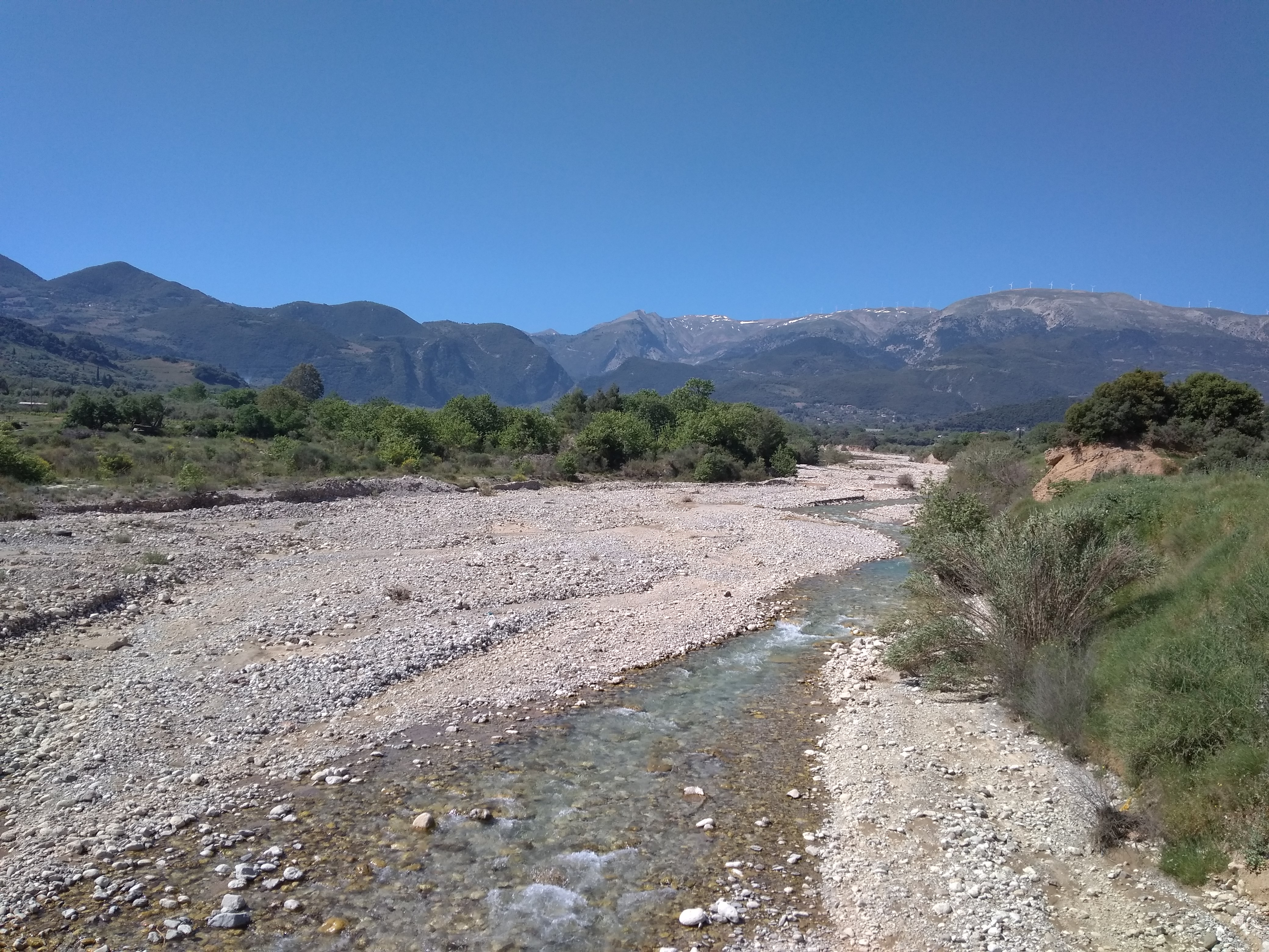 River Foinikas (Phoenix) , Achaea, Greece. Photo of the river in April 2018, near the village of Neo Salmeniko.